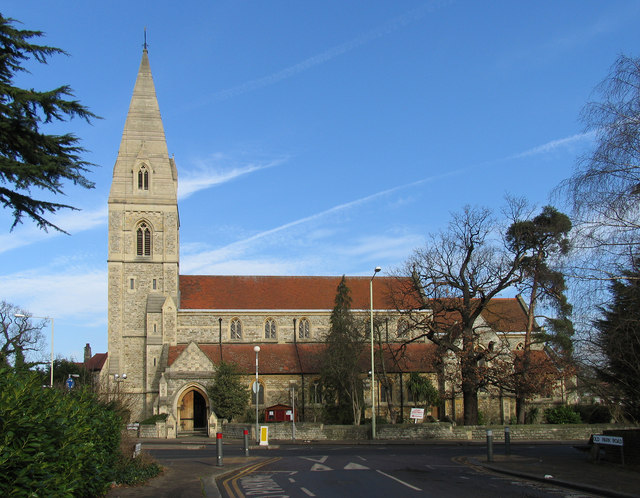 St Mary Magdalene, Windmill Hill, Enfield, near to Forty Hill, Enfield, Great Britain.